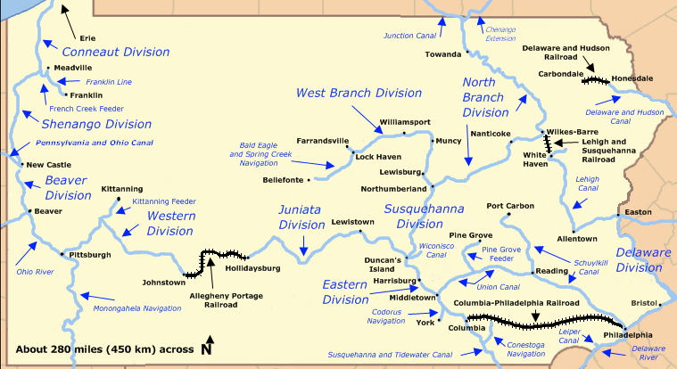 Historic canals of Pennsylvania, including divisions of the 19th-century Pennsylvania Canal system plus navigable rivers, other canals, and four railroads that made the system more useful. Not all of the canals shown on the map existed at the same time.